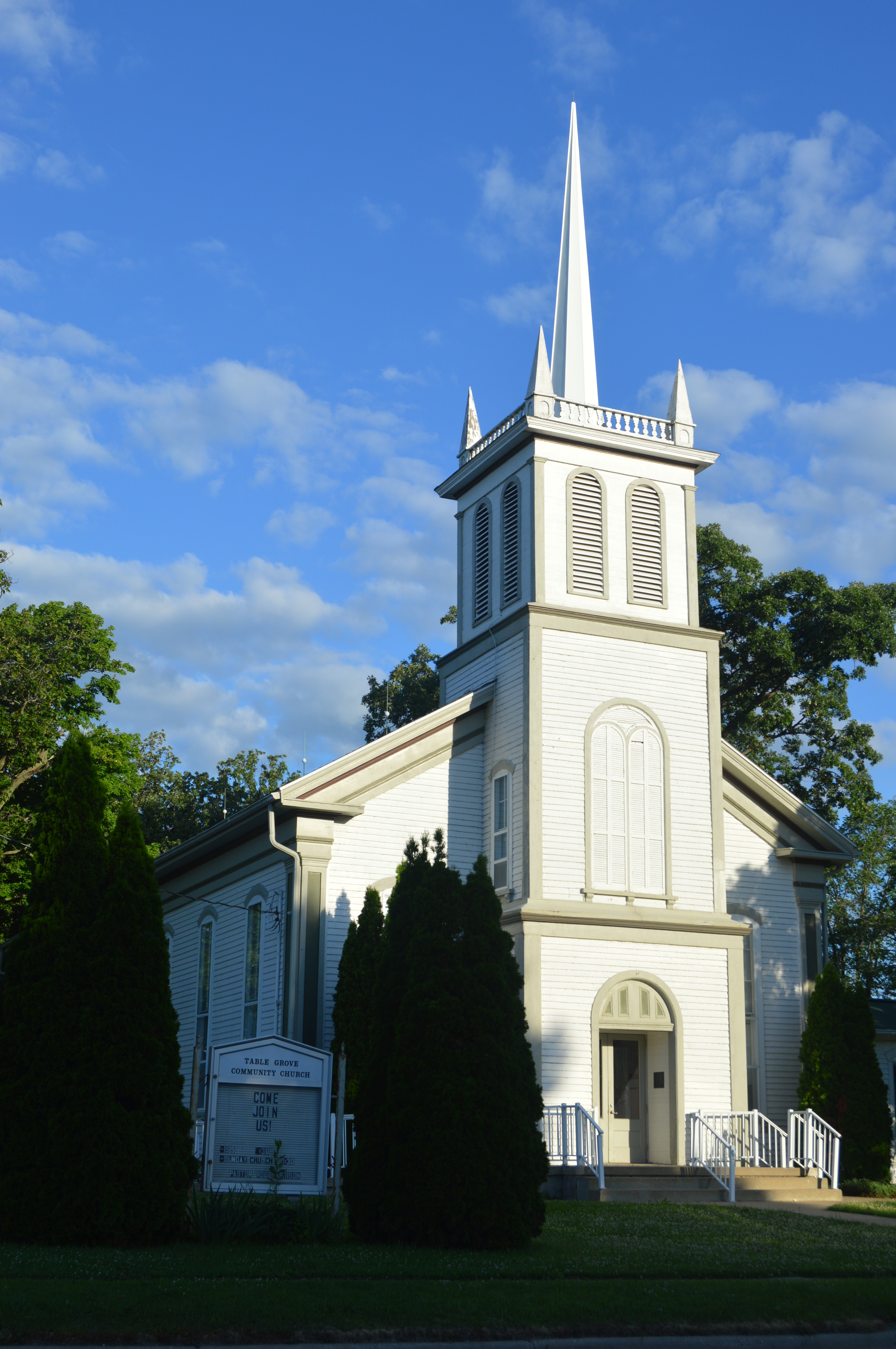 Front of the Table Grove Community Church, located on the western side of Broadway (U.S. Route 136) north of Liberty Street in Table Grove, Illinois, United States. Built in 1868, it is listed on the National Register of Historic Places.